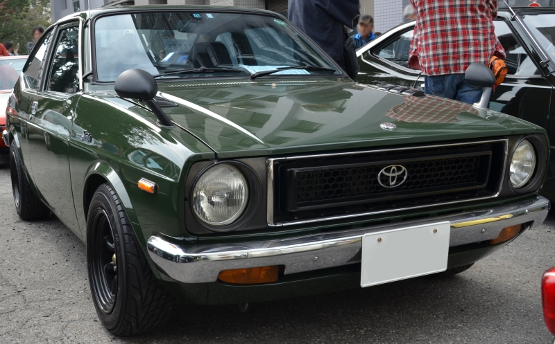 Toyota Publica Starlet SR